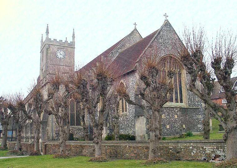 Parish church of St Mary the Virgin, Marlborough, Wiltshire, seen from the east